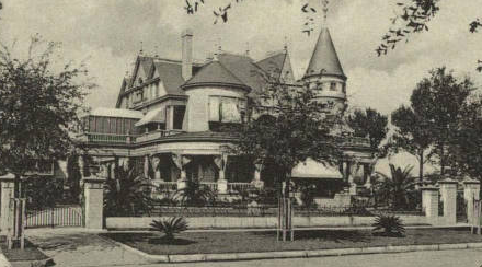 The Louisa Jones House, corner of Main and Anita, photograph c. 1912.